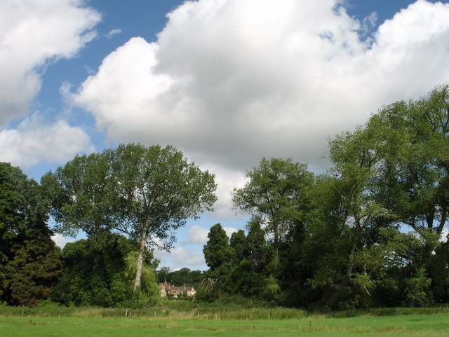 Eythrope Pavilion, from the North Bucks Way Eythrope is a hamlet and country house - the Eythrope Pavilion - located to the south east of the village of Waddesdon, Buckinghamshire. The hamlet name is Anglo Saxon in origin, and means "island farm", referring to an island in the River Thame that flows by the hamlet. This distant view of the Pavilion is all that is visible to the pedestrian from the footpath. The architect of the Eythrope Pavilion was George Devey (1820–1886), a specialist in lodges, cottages and country mansions, whose distinctive style included the use of tiles and timbers on external walls. A favourite architect of the Rothschild family, he received numerous commissions from family members (as did fellow architect William Huckvale at Tring). The Pavilion was commissioned by Miss Alice Charlotte von Rothschild (1847-1922). When her brother Ferdinand began the construction of Waddesdon Manor in 1874, Miss Rothschild acquired a nearby property at Eythrope where, between 1876 and 1879, she had a park and garden created and Eythrope Pavilion built, near to the River Thame. Because she had suffered from rheumatic fever, she had been advised not to sleep near water because dampness would aggravate her health, so the Pavilion was originally built for daytime occupation only and at nights she returned to Waddesdon Manor. The house was later extended and today looks something of a pot pourri of styles.